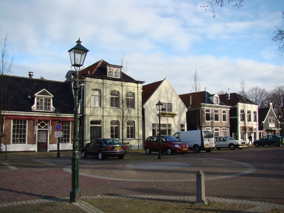 Rijperweg, Middenbeemster, North Holland, The Netherlands